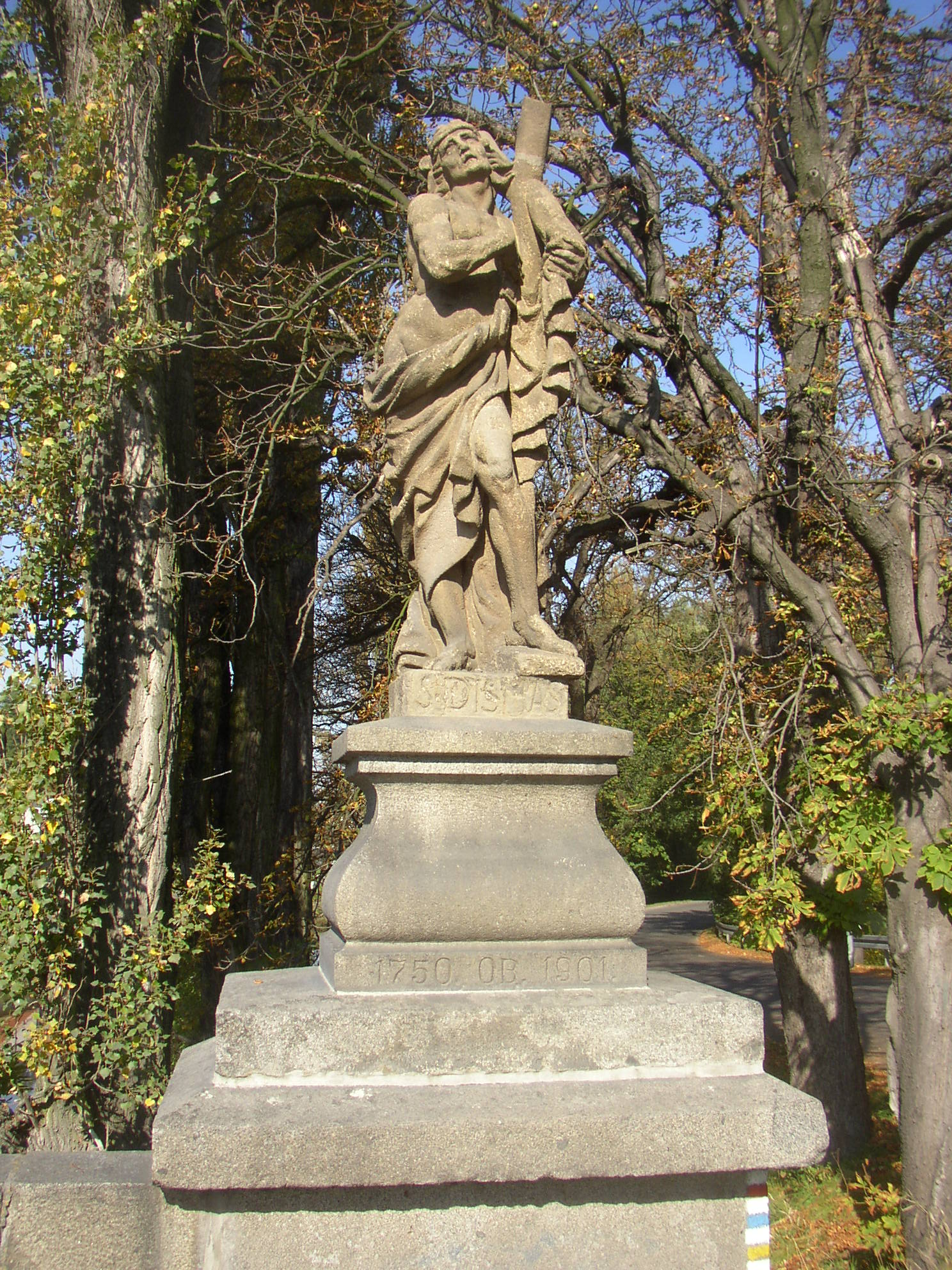 Statue of St Dismas (1750) on a bridge in Březnice, Příbram District, Czech Republic.